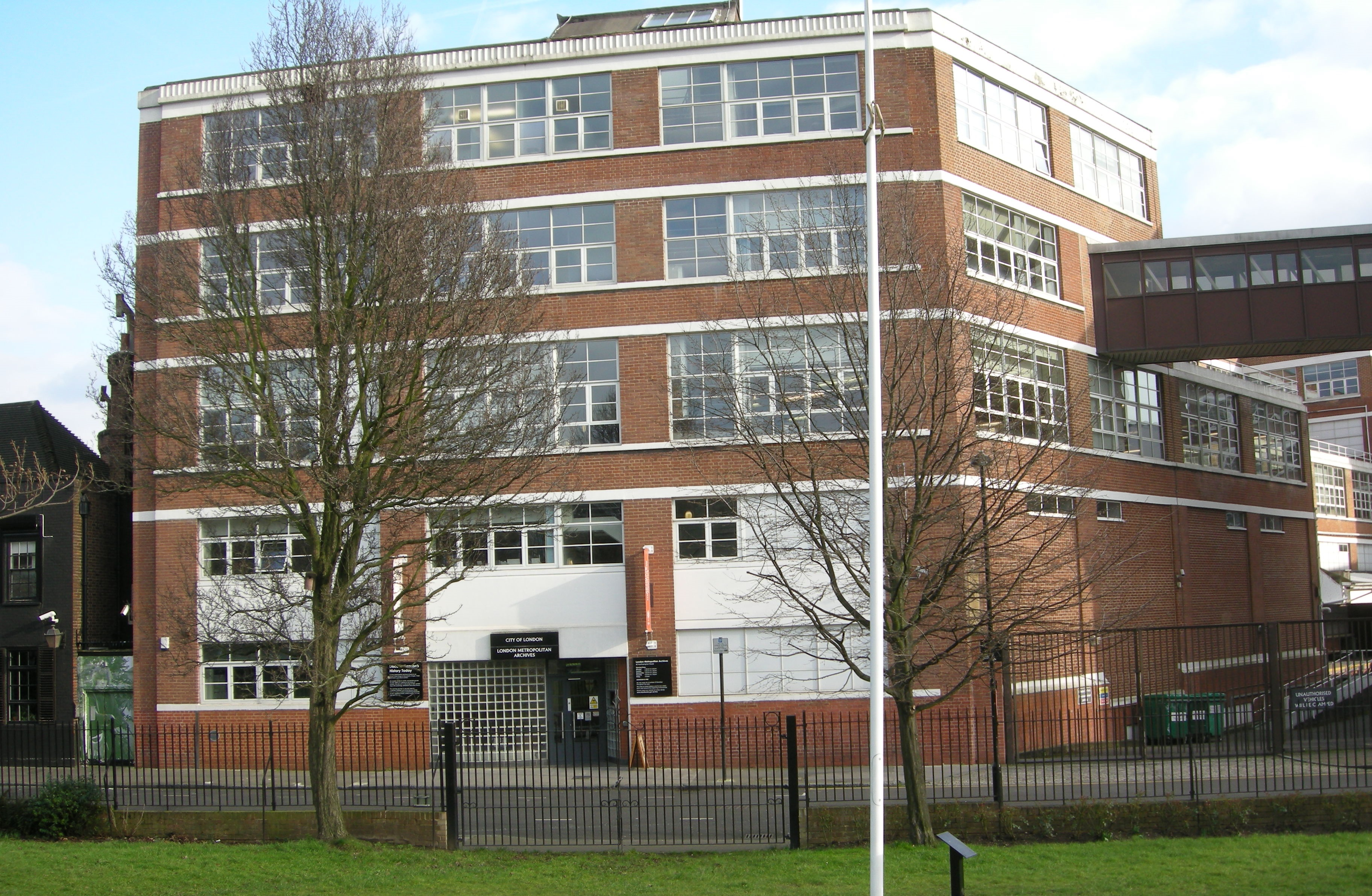 Main building and front of London Metropolitan Archives, 40 Northampton Road, Clerkenwell, London EC1: formerly the Temple Press print works, built 1939.